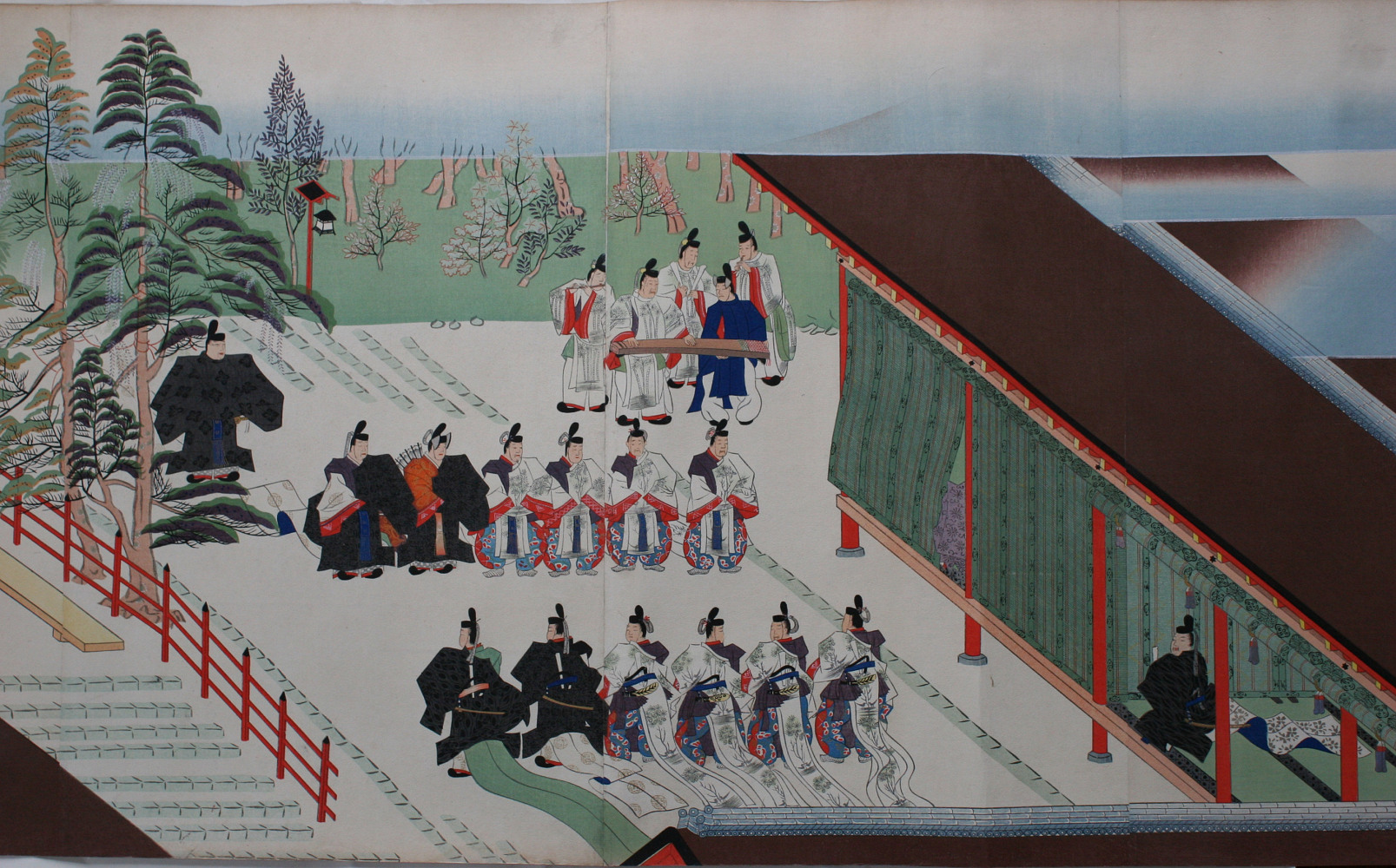 Detail of a scene of Illustrated scroll of Kasuga Gongen Kenki Emaki. By Takashina Takakane. 2nd voleme of 20 handscrolls, ink and colour on silk. 40cm height, Kamakura period, dated 1309. Japan Imperial Collection